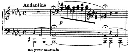 Excerpt from Liszt's Transcendental Etude 11 "Harmonies du Soir"